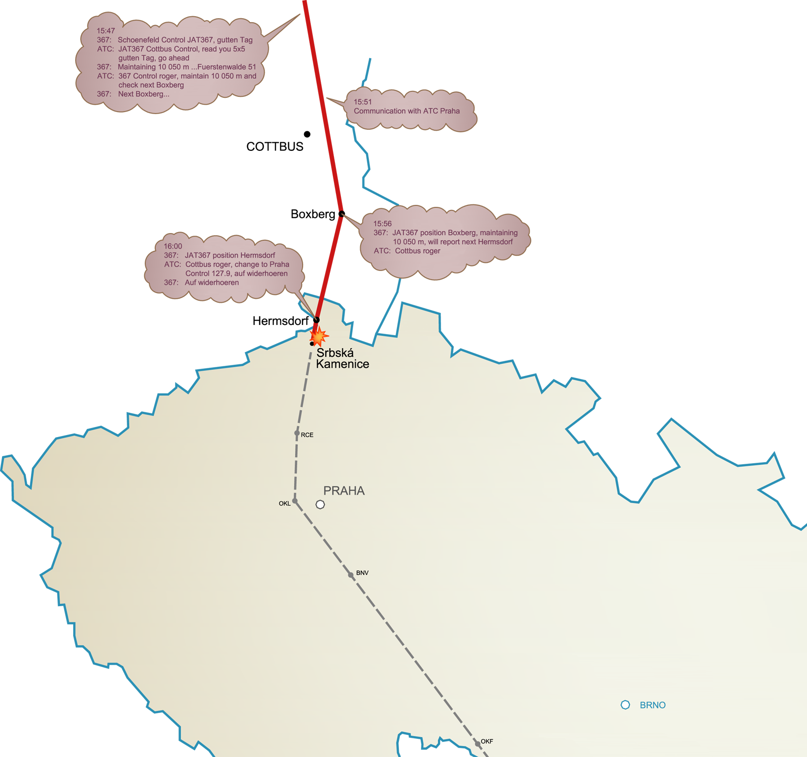 Map of flight JAT367 - based on official Final Report